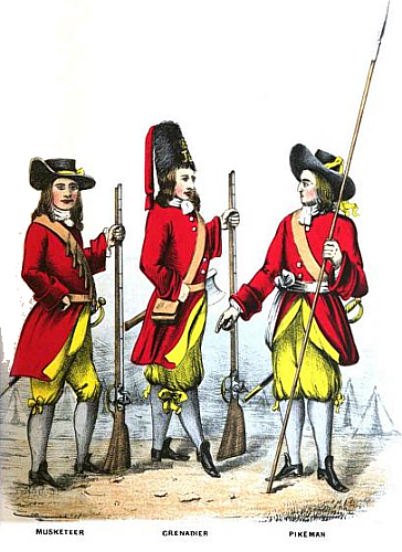 Uniform of the Earl of Huntingdon's Regiment, later the Somerset Light Infantry in 1685